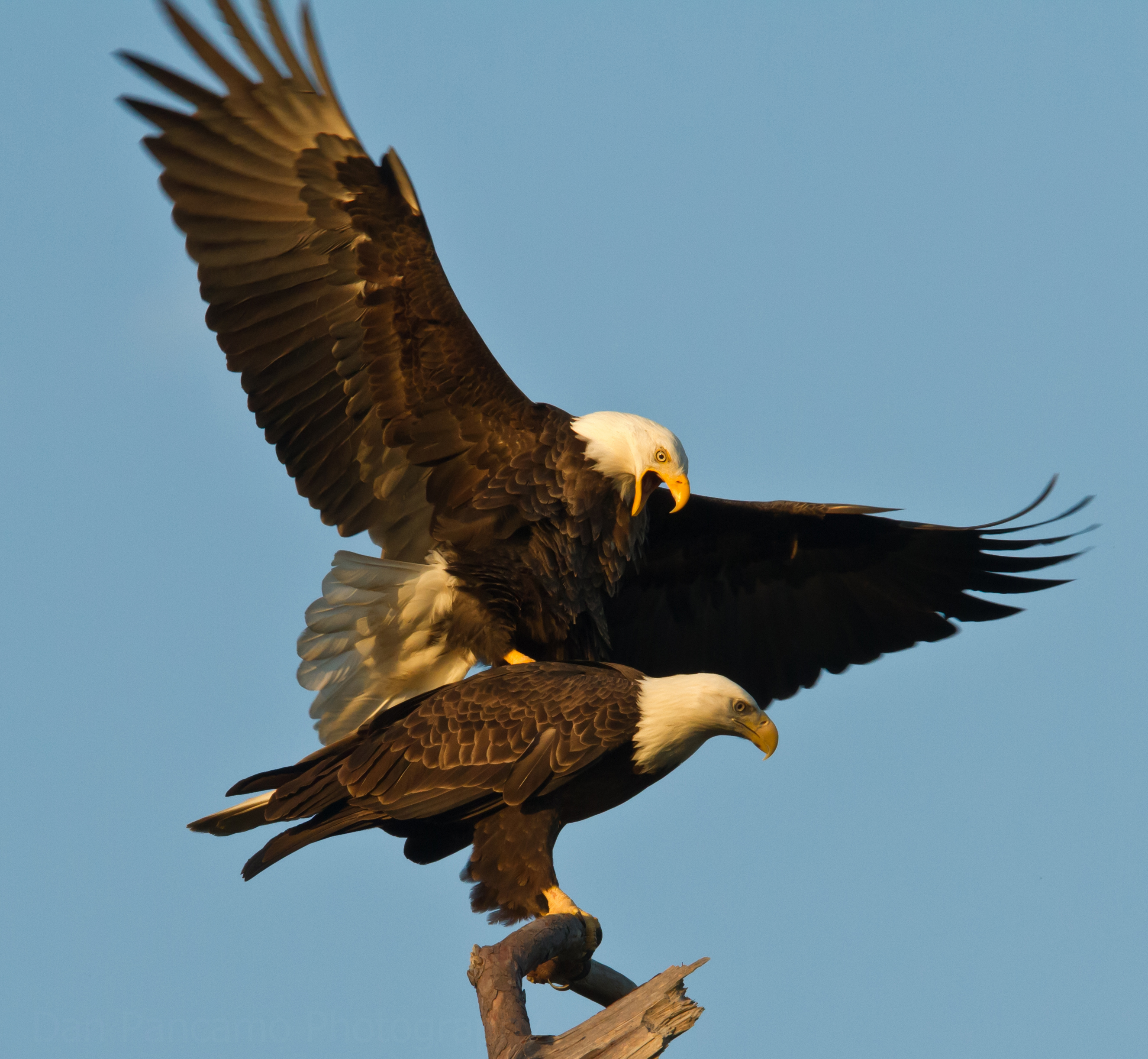 American Bald Eagle fall mating ritual